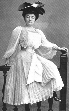 Marguerite Deval, from a 1902 publication. A white woman seated on a railing, wearing a white dress with a pleated skirt, a short vest, and a dark hat.